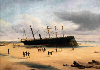 SS Great Britain stranded ashore in Dundrum Bay, County Down, Ireland, 1846.